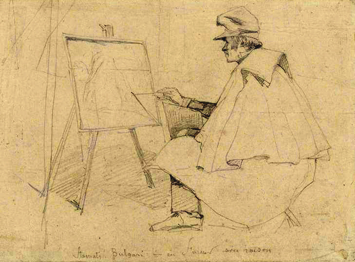 Portrait of the painter Stamati Bulgari (Stamatis Voulgaris), seated in front of his easel